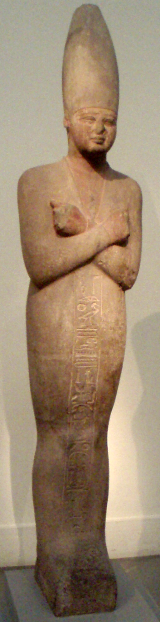 Osiride statue of the 11th dynasty phraoah Mentuhotep III, restored and reinscribed by the 19th dynasty pharaoh Merneptah. Made of sandstone, from Armant. Originally from circa 2061-1991 B.C., re-inscription from 1293-1185 B.C. Now residing in the Museum of Fine Arts, Boston.